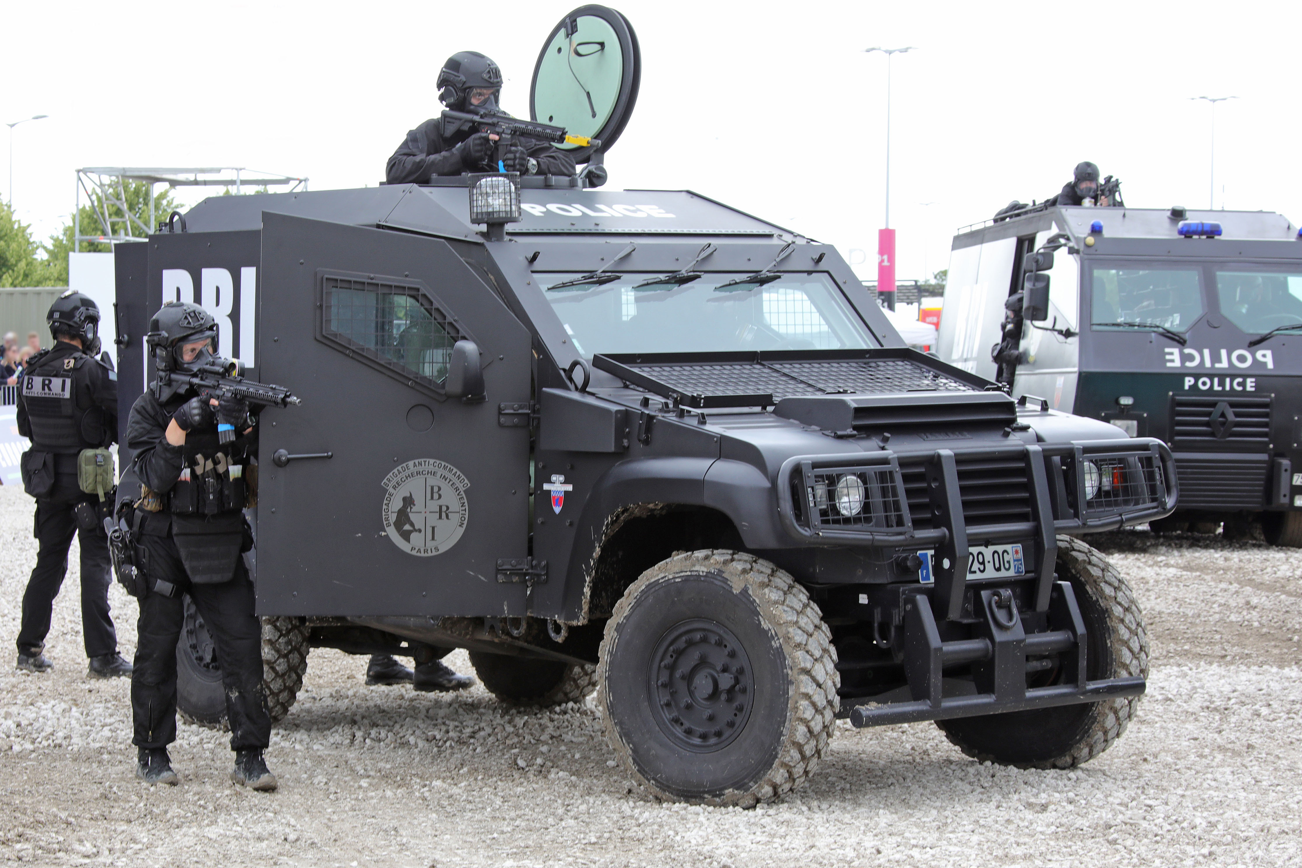 Paris BRI Hostage rescue demonstration - June 2018